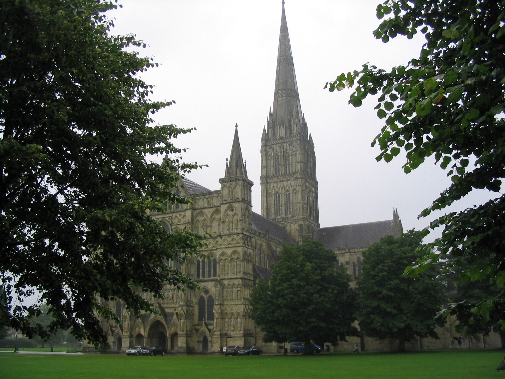 Salisbury cathedral on a rainy day